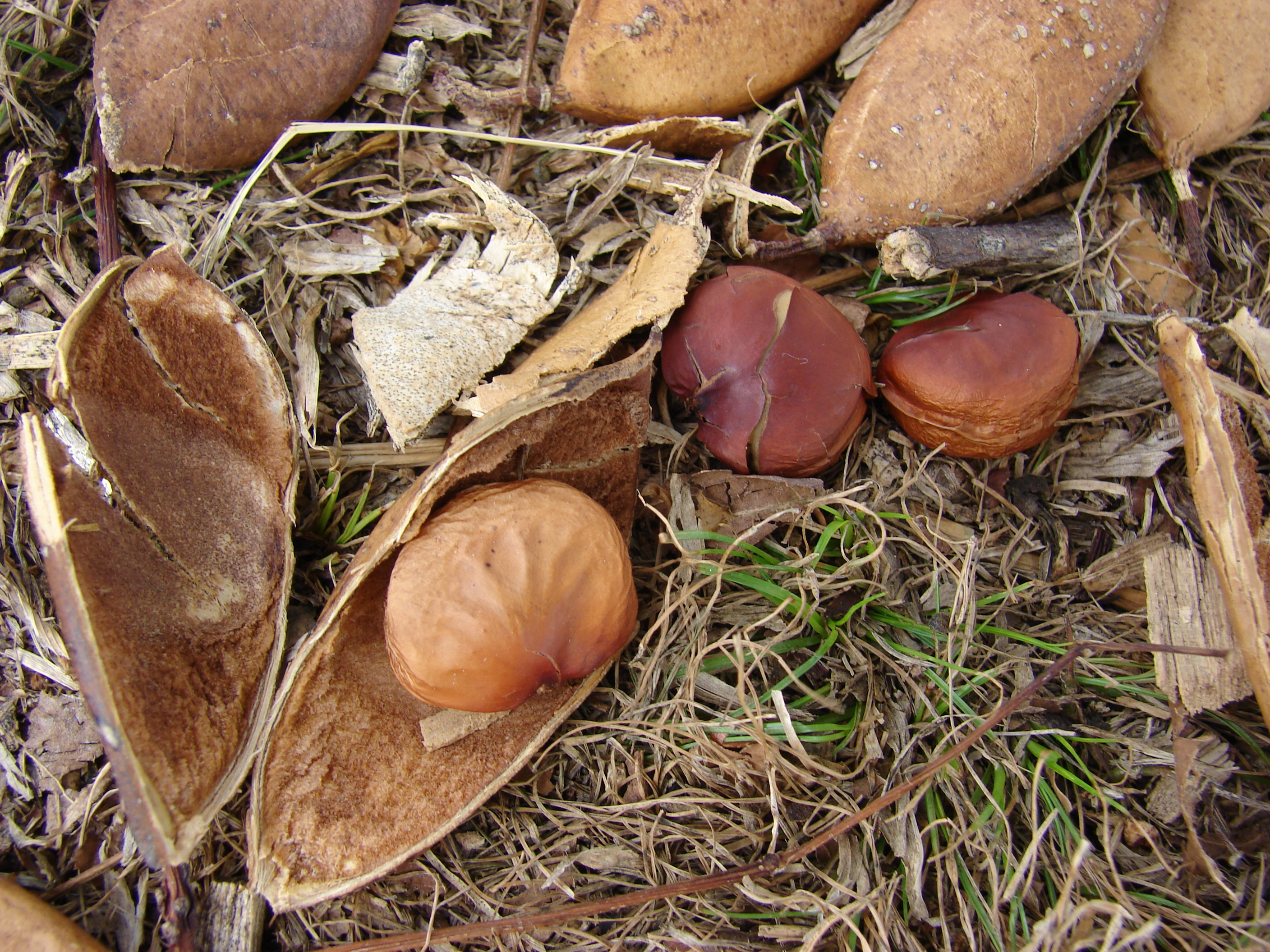 Milletia pinnata (pods and seeds). Location: Oahu, Keehi Lagoon